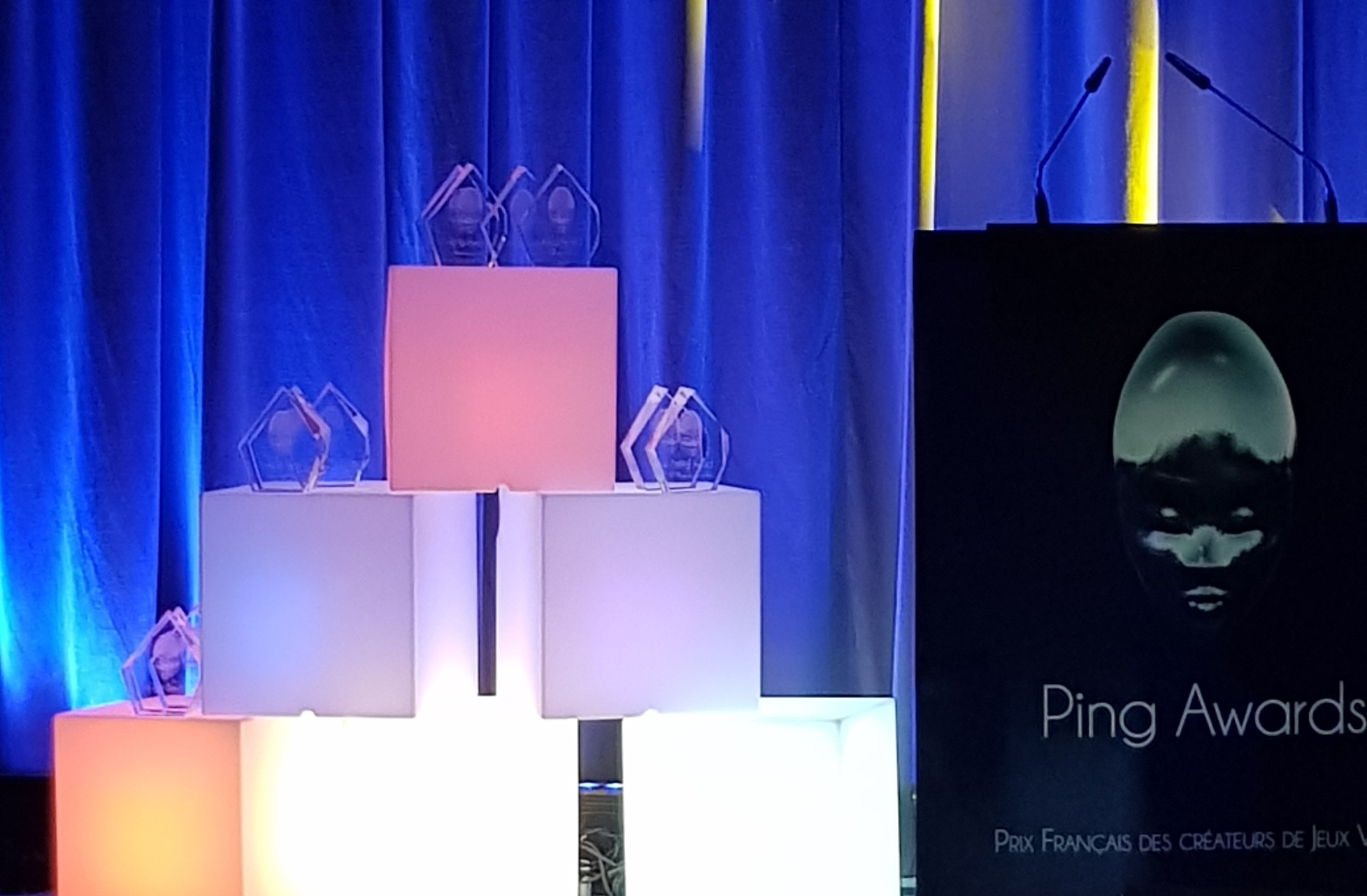 Ping Awards 2018 - Trophies and Stand